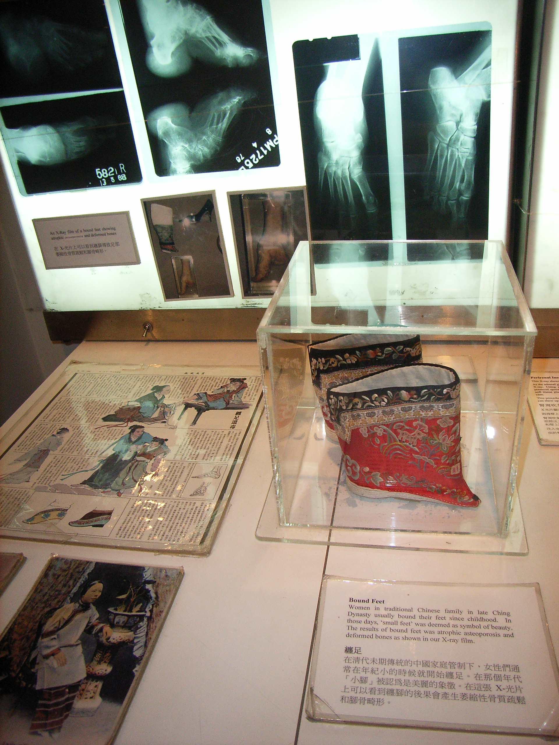 纏足Bound feet in the past years.